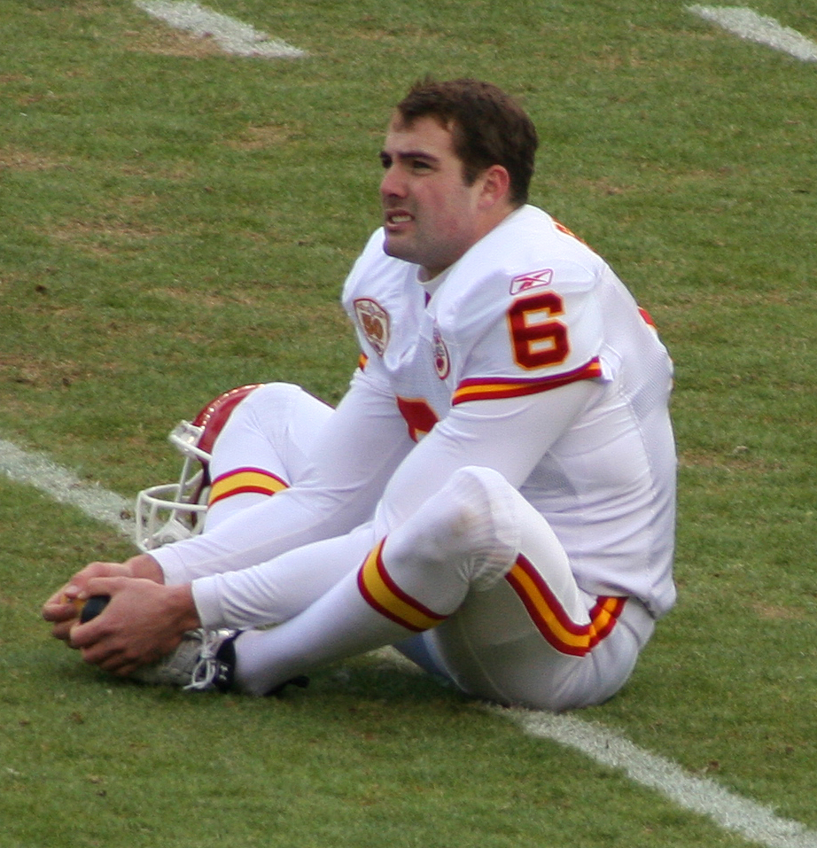 Ryan Succop, a player on the Kansas City Chiefs American football team.